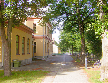 The main building of the Nordic Institute for Theoretical Physics in Stockholm